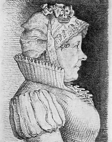 Portrait of Henriette Zimmer (the Grimm brother's aunt; a sister of their mother), pencil drawing